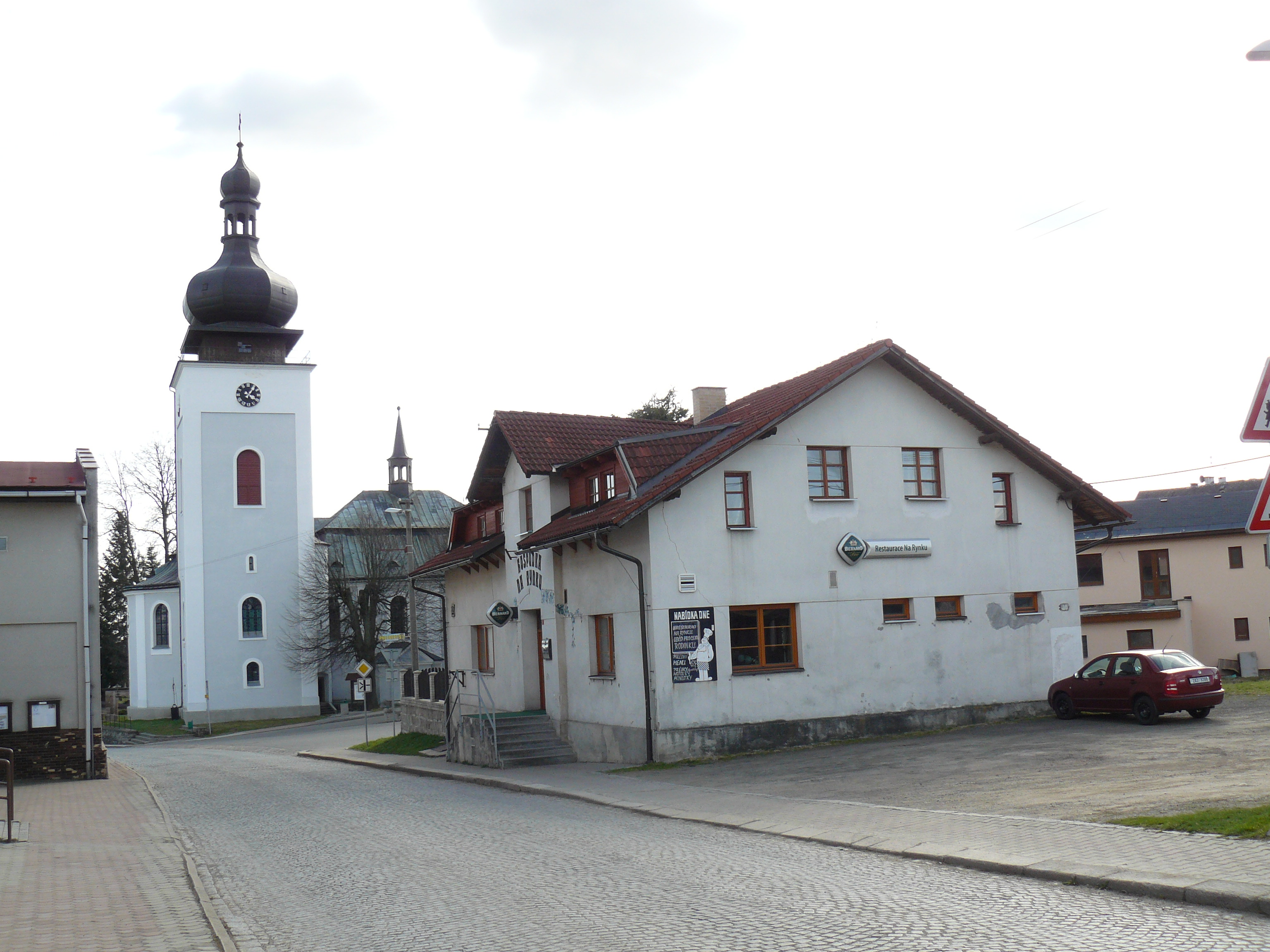 Bozkov - village in Czech Republic